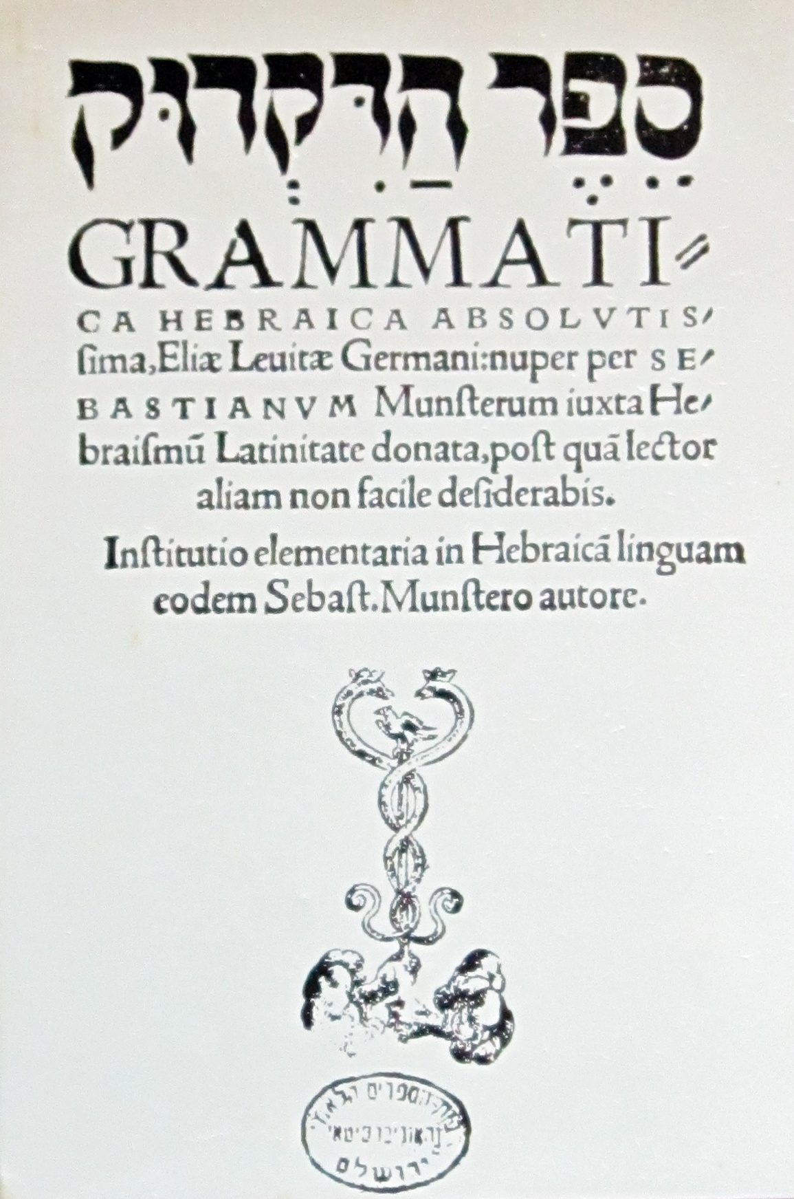 Hebrew-Latin edition of "Sefer ha-Dikduk" (The Book of Grammar) by Elijah Bahur Levita, Basle, 1525